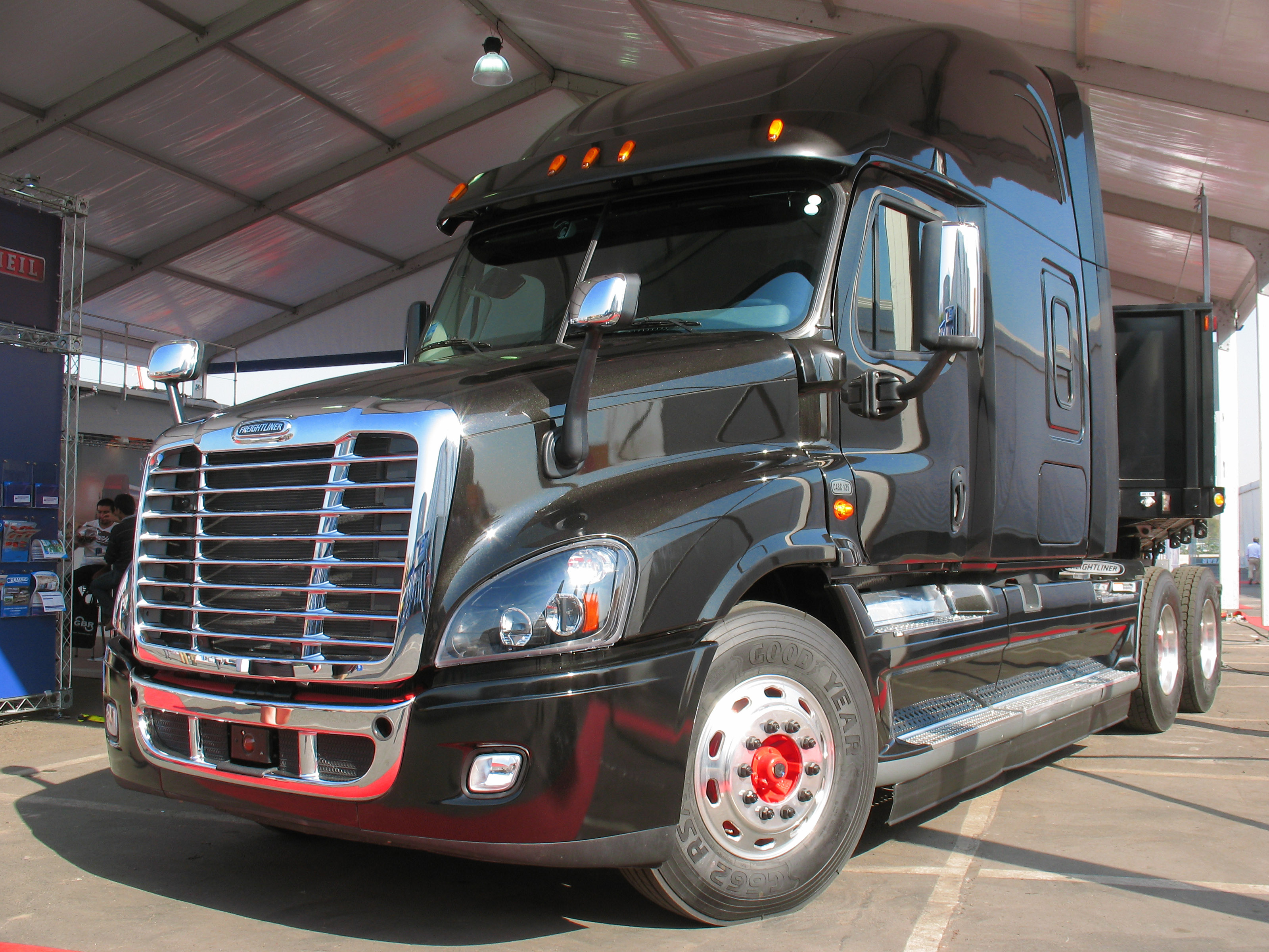 Freightliner Cascadia 125 XT 2014